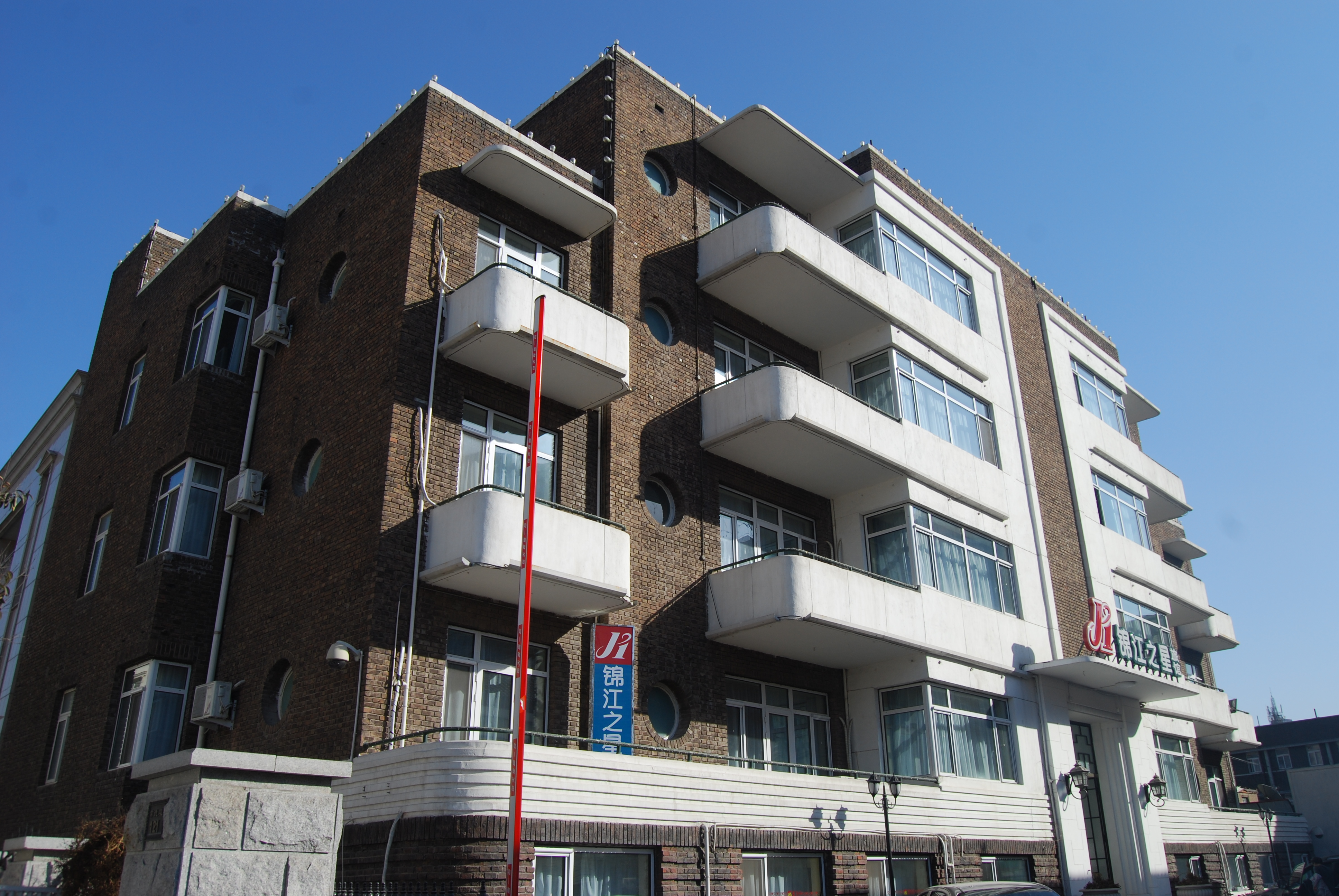 Former Mao Gen Building in Changde Dao No. 121, Heping District, Tianjin